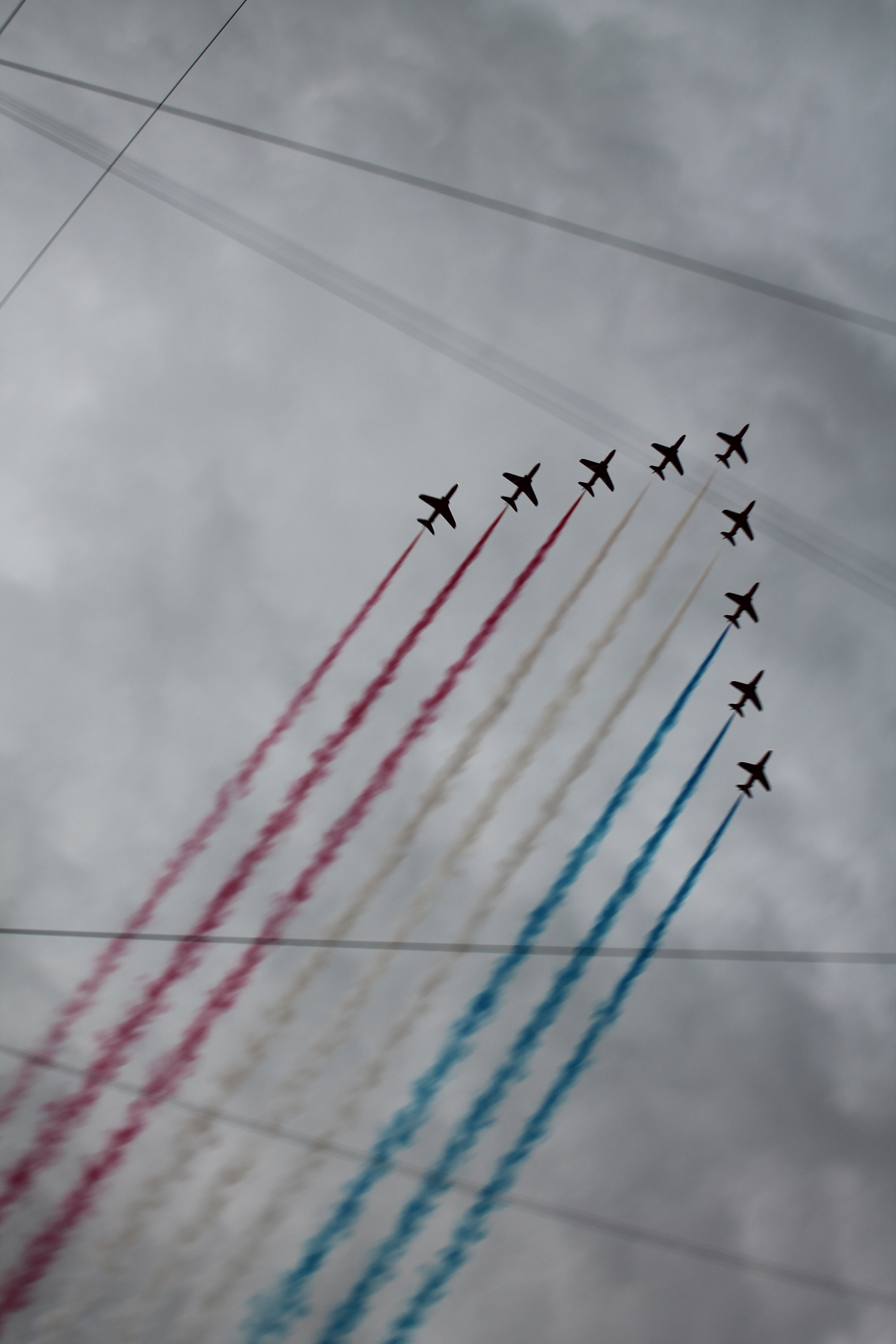 Red Arrows flying over the Olympic Opening Ceremony at 20:12 GMT